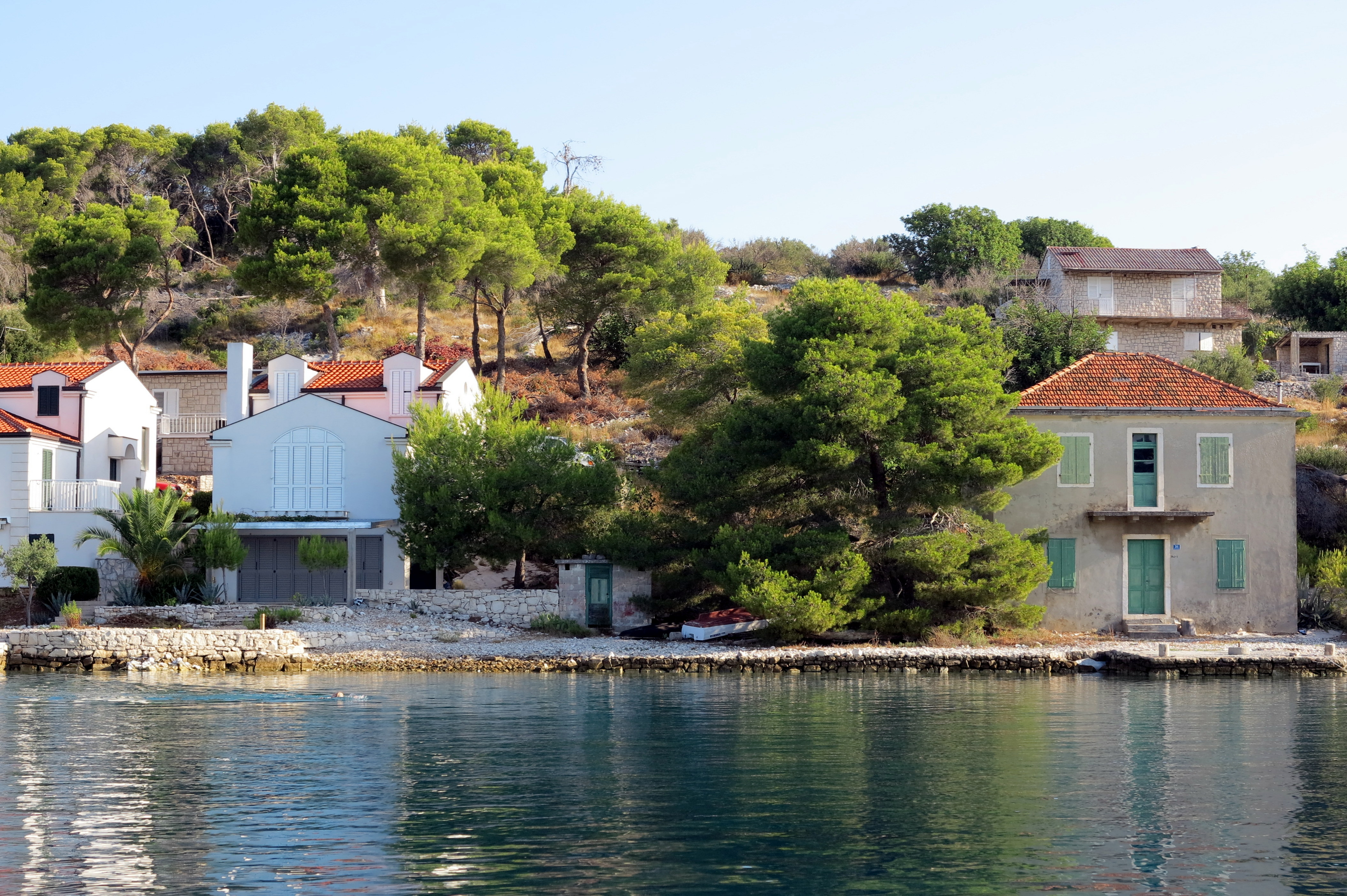 New buildings and old in Podkamenica or Pod Kamenica in the bay of Nečujam island of Šolta / Croatia / Adriatic Sea. In the background on the trees nor the forest fire of 2077 can be seen.